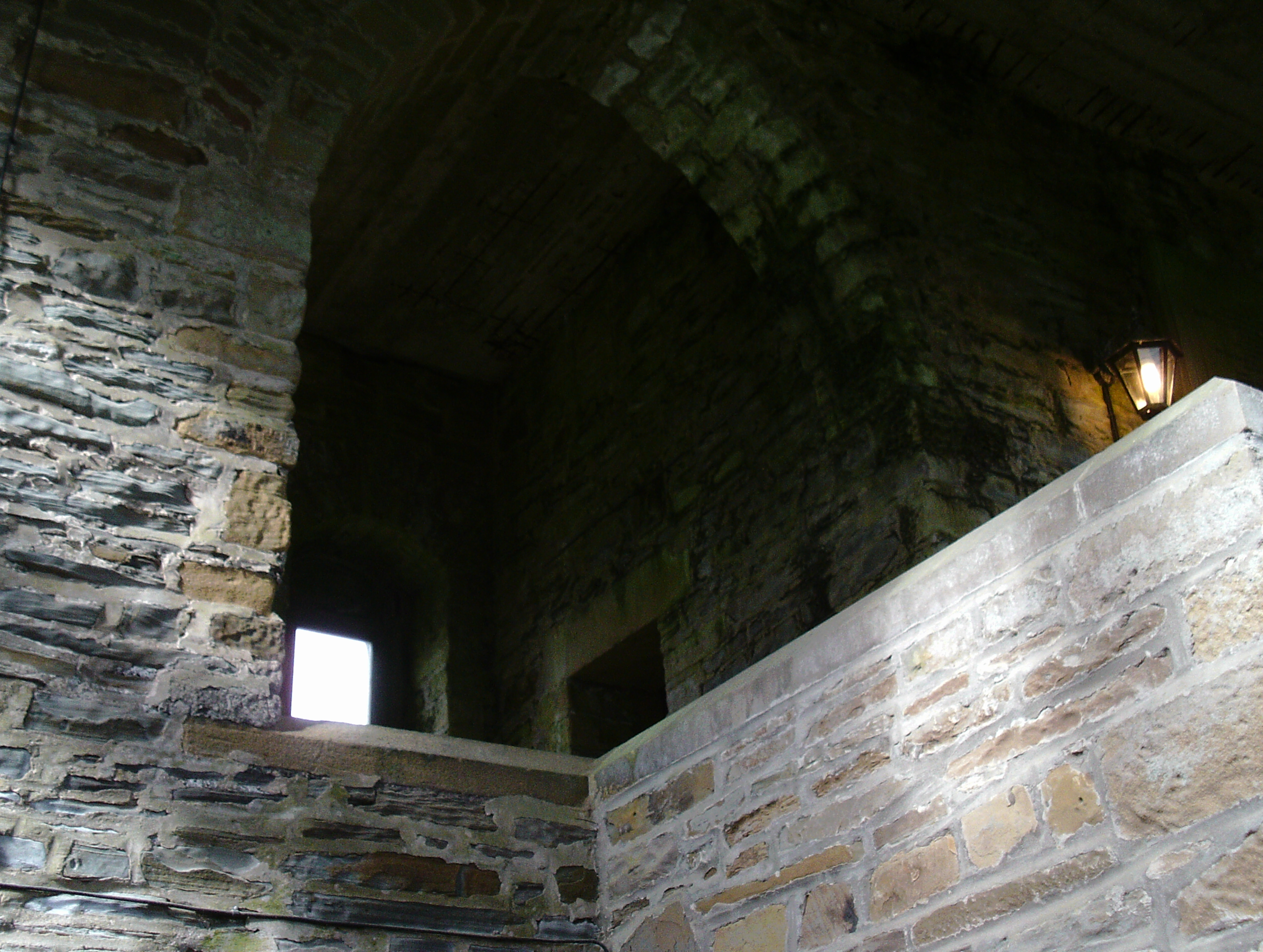 The top floor of Victoria Tower, just underneath the roof.